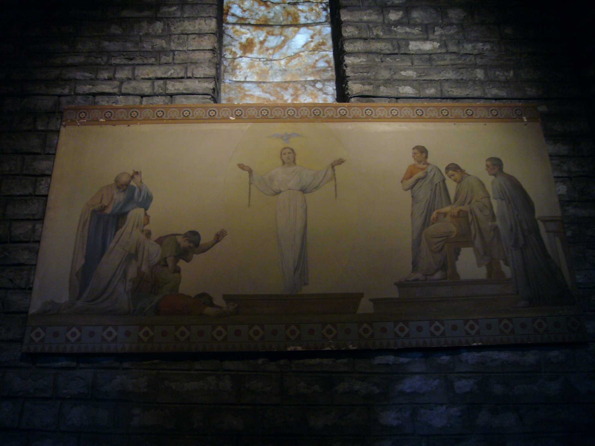 Interior of Santa Maria de Ripoll Monastery.